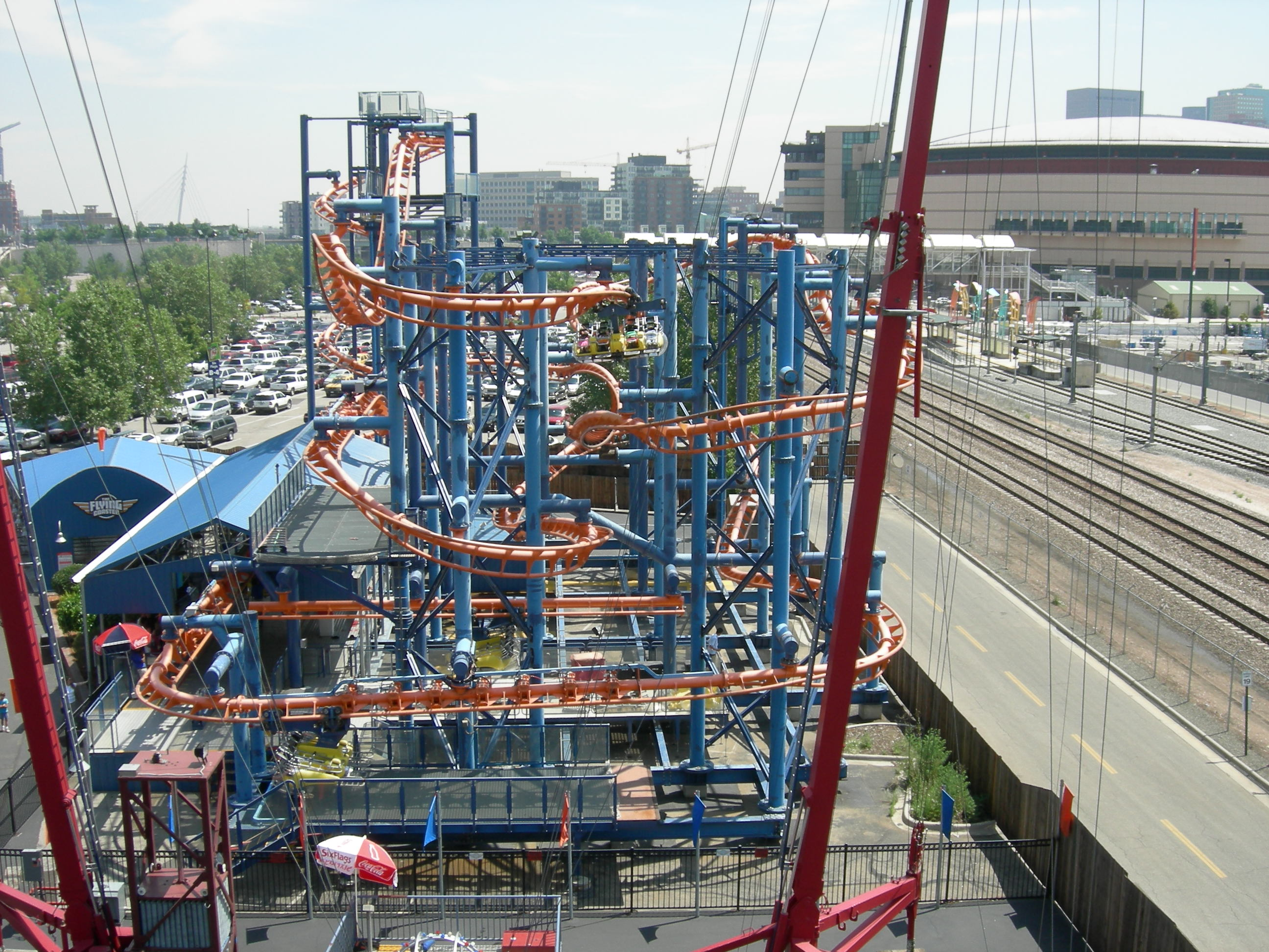 An overview of The Flying Coaster's layout from Sidewinder. Pic taken on July 10th, 2006 by Carl F.